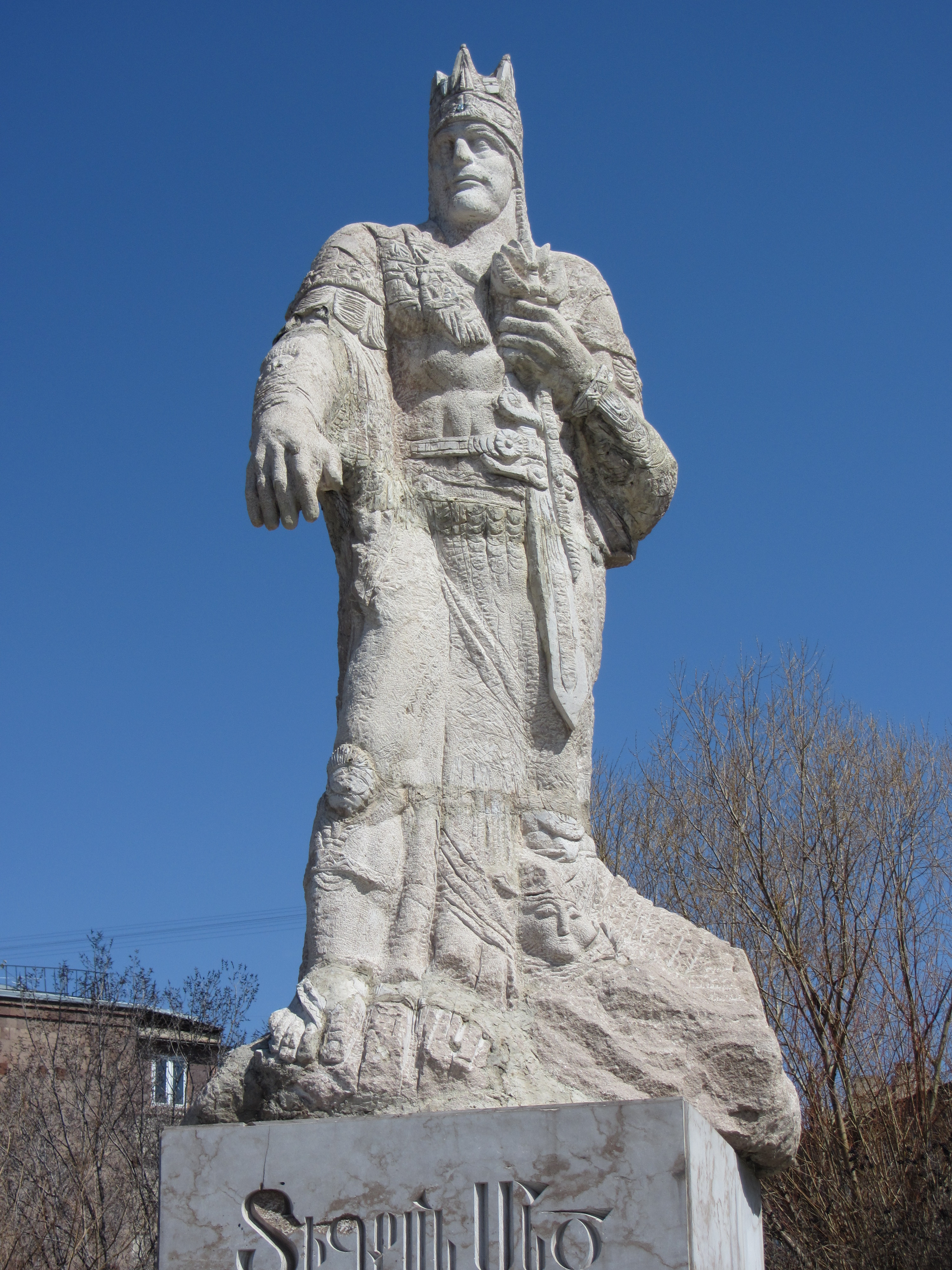 Statue of Armenian king Tigran the Great, Yereavan, Nor Nork 2-nd district.